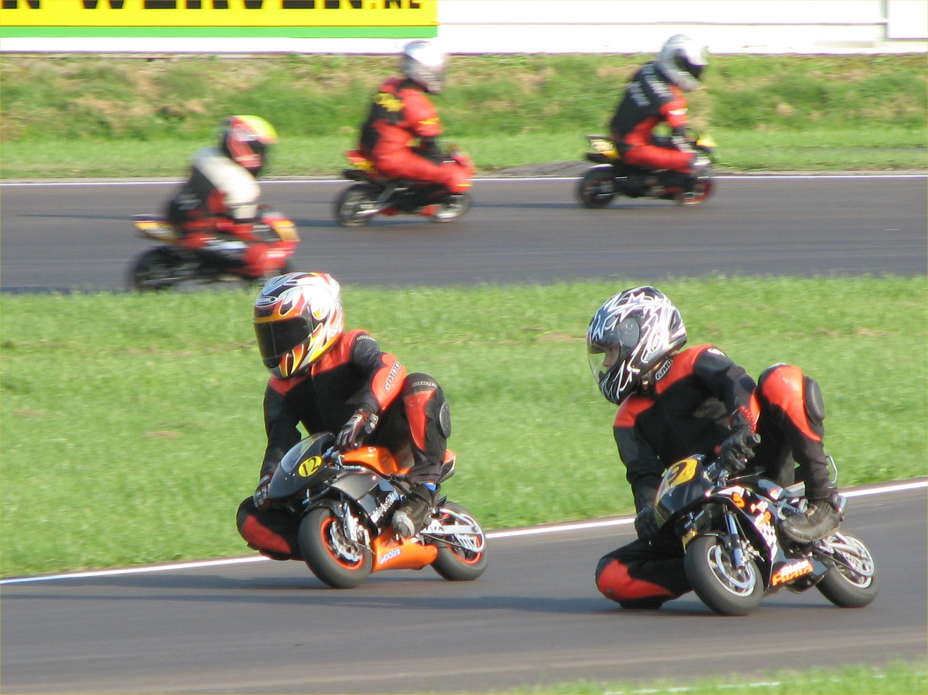 'Junior B' race at Lelystad (NL)